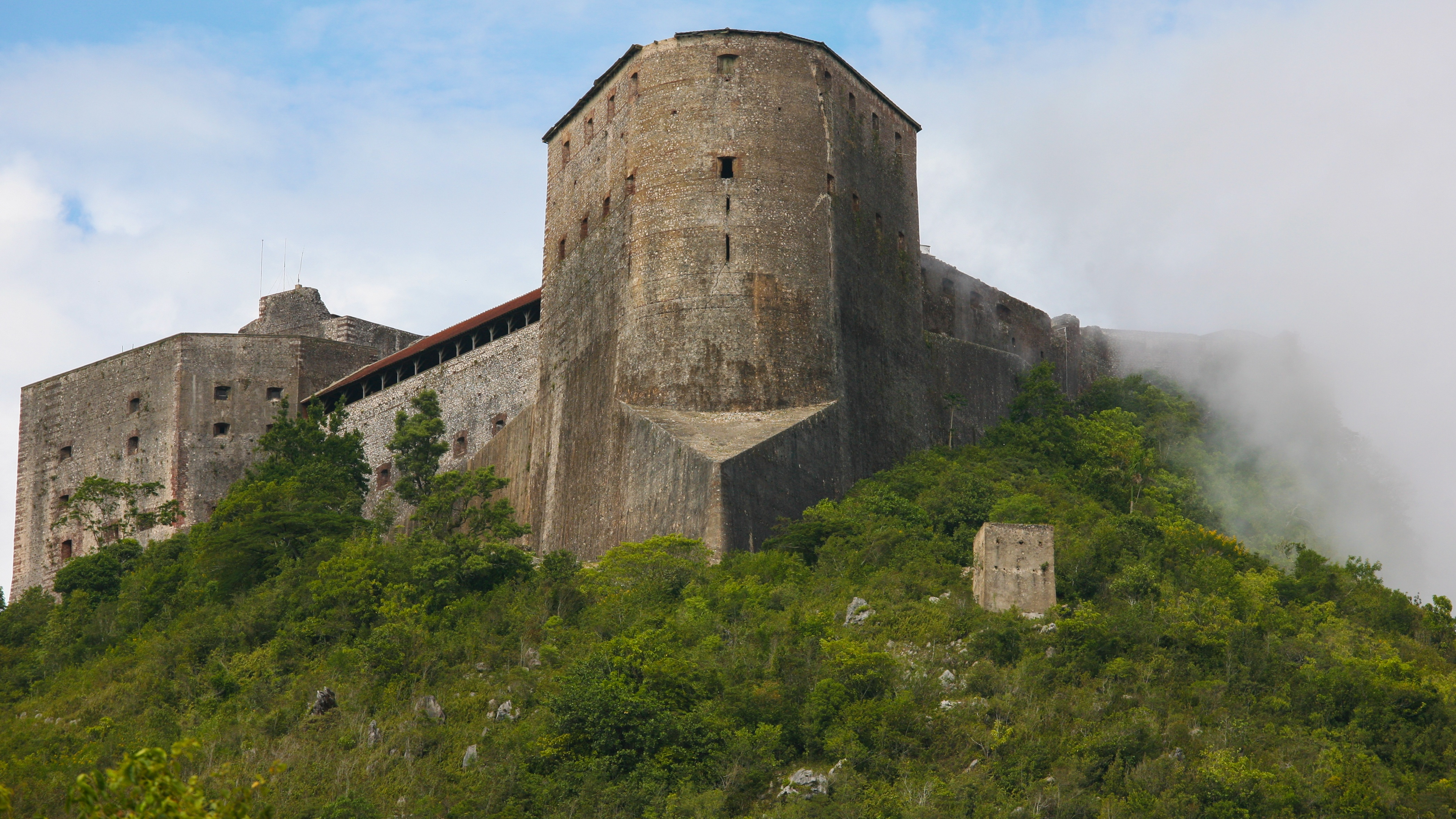 The Citadelle Laferrière or, Citadelle Henry Christophe, or simply the Citadelle, is a large mountaintop fortress in northern Haiti, approximately 17 miles south of the city of Cap-Haïtien and five miles uphill from the town of Milot.